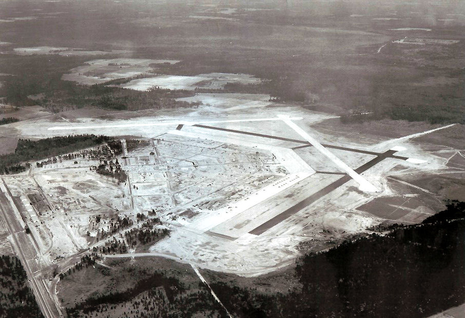 Moody Army Airfield, Georgia